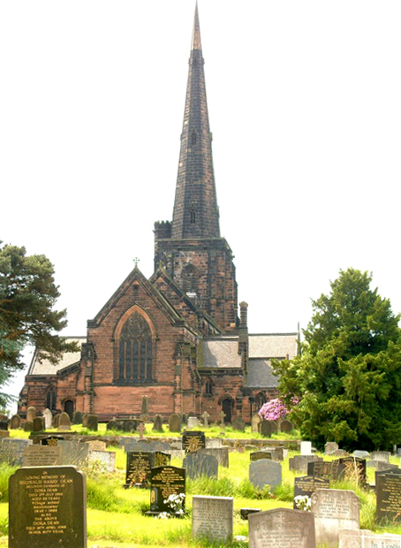 Photograph enhanced by me